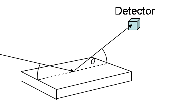 This is a schematic diagram of the scattering geometry for x-ray specular reflectivity. It is intended to be used as an illustration for the x-ray reflectivity wikipedia page